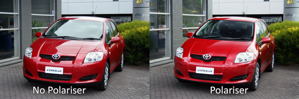 Polarising/polarizing filter example